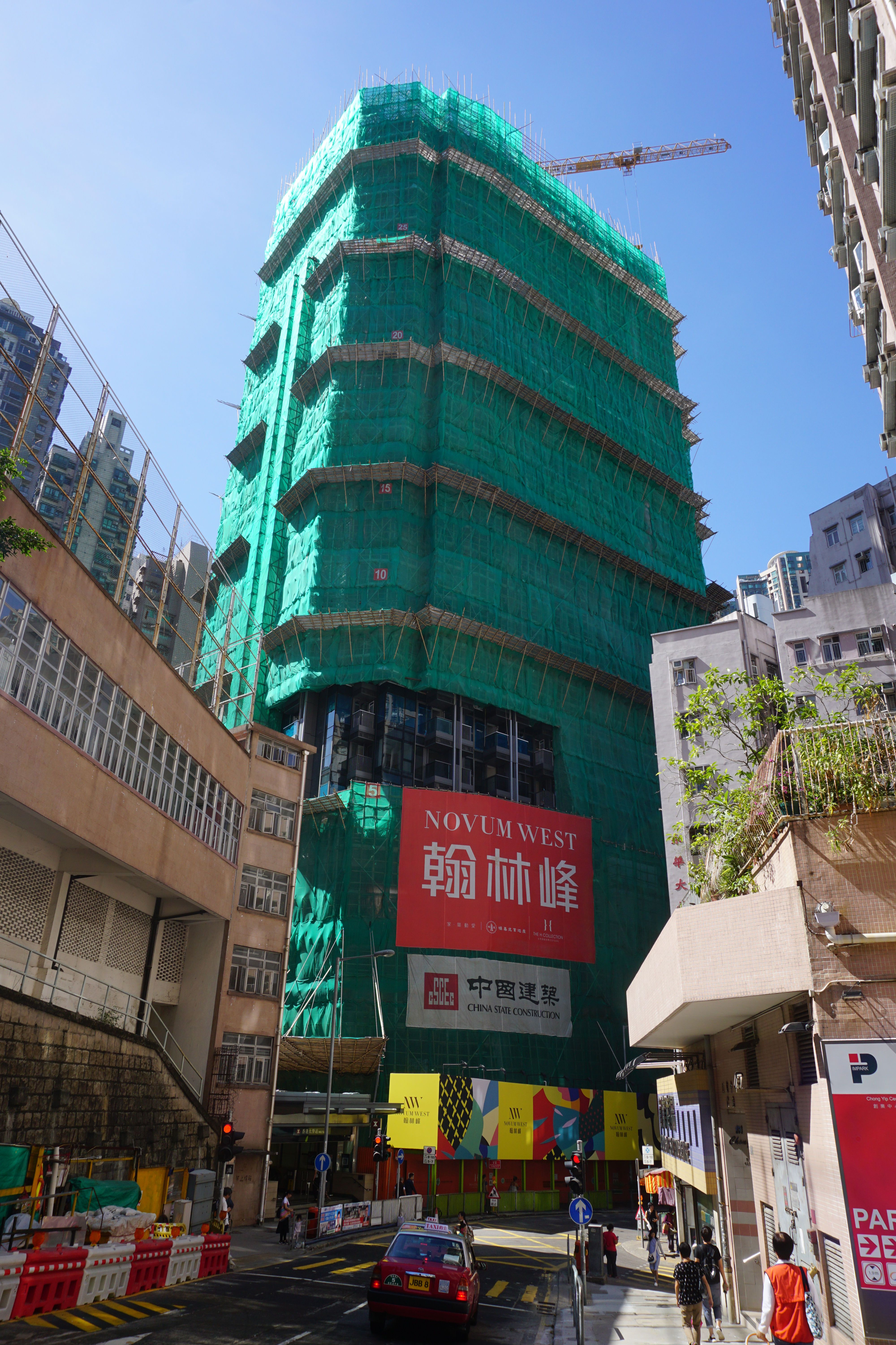 Novum West in Shek Tong Tsui, Hong Kong.